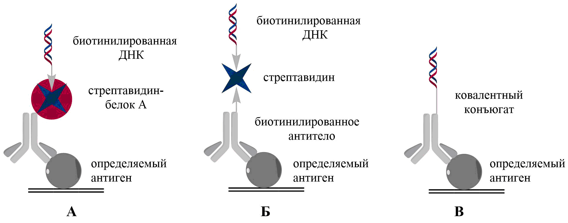 Immuno-PCR conjugates